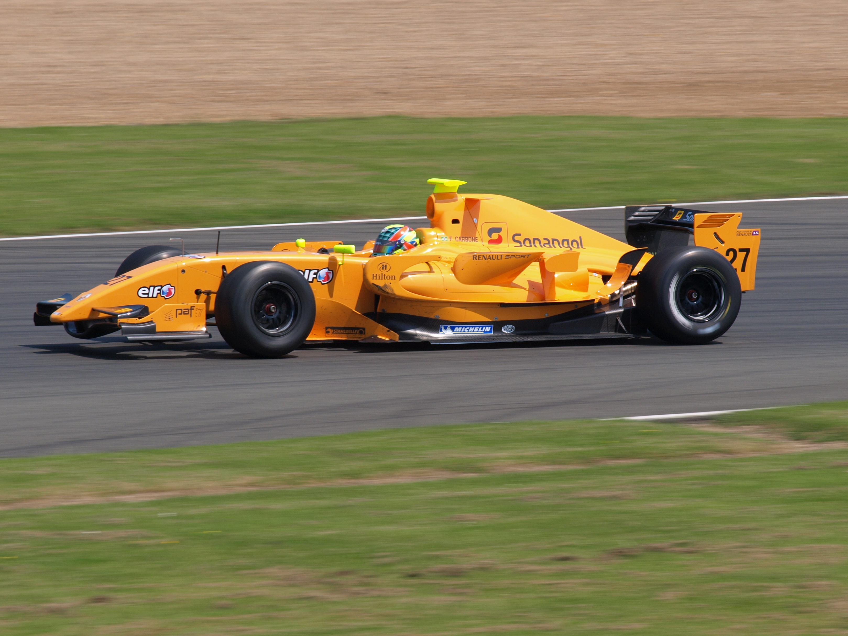 Fabio Carbone driving for Ultimate Signature at the Silverstone round of the 2008 World Series by Renault season.